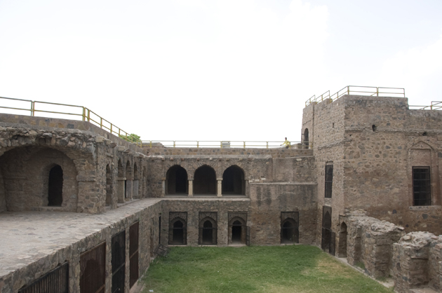 The inside view of the Fort built by Firoz Shah Tughlaq at Hisar.